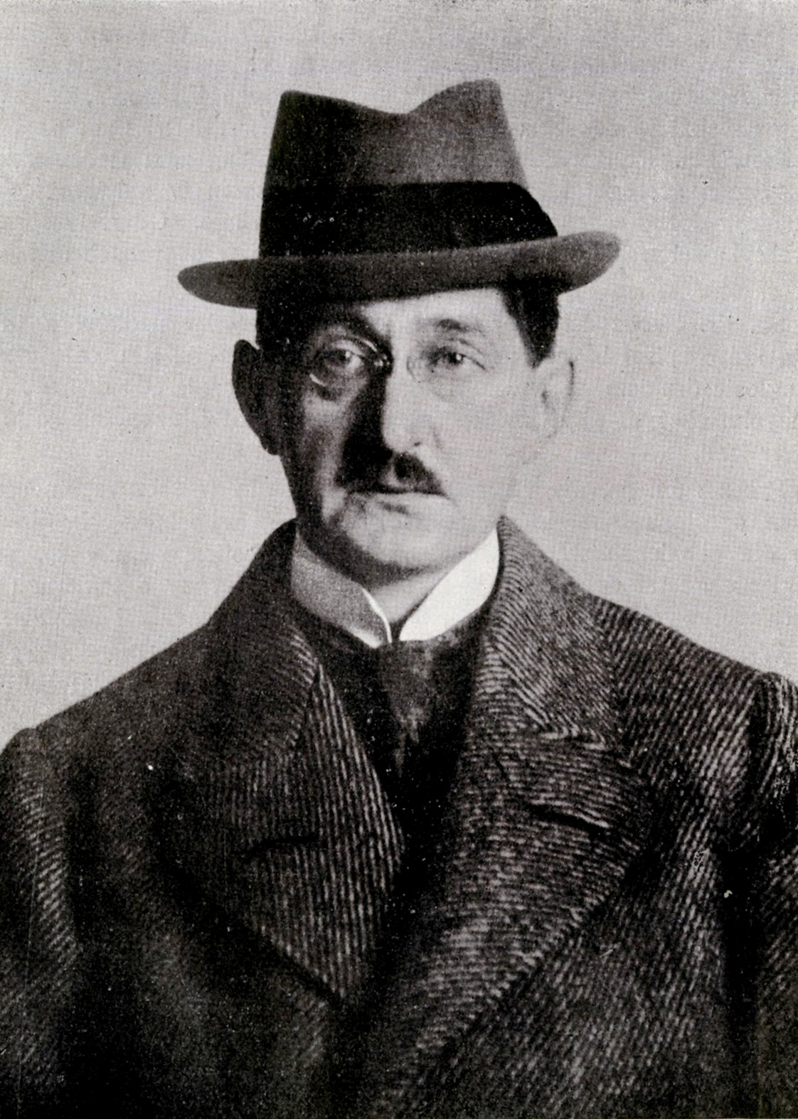 Dr Wincenty Skoczyński (1865-1927)